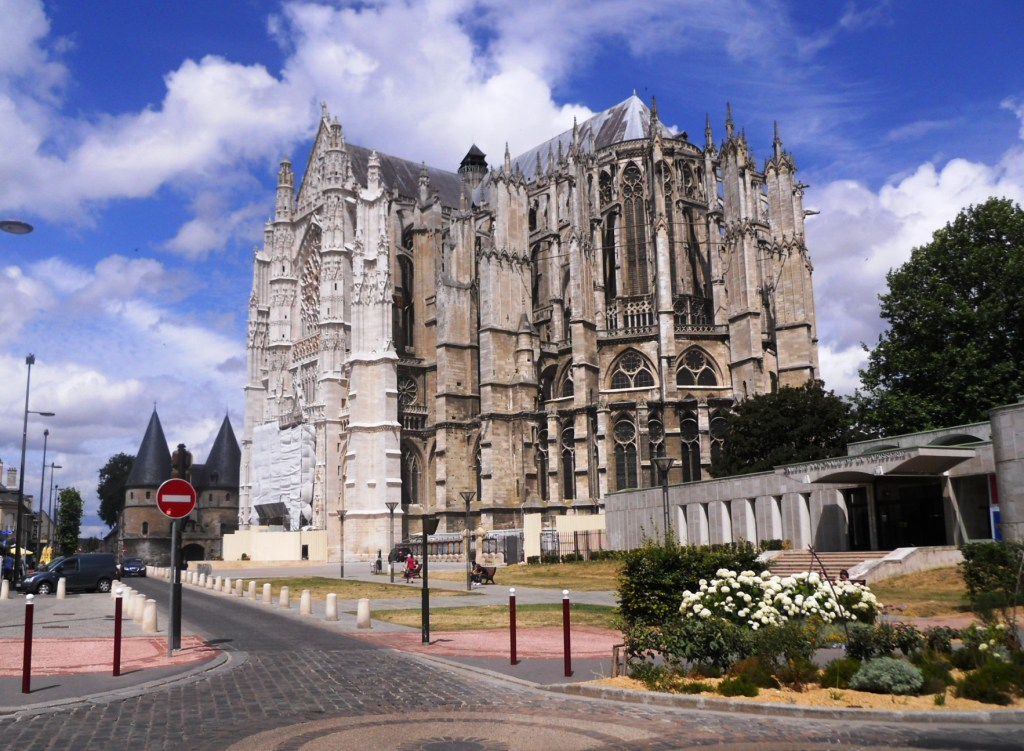 Beauvais cathedral from SE